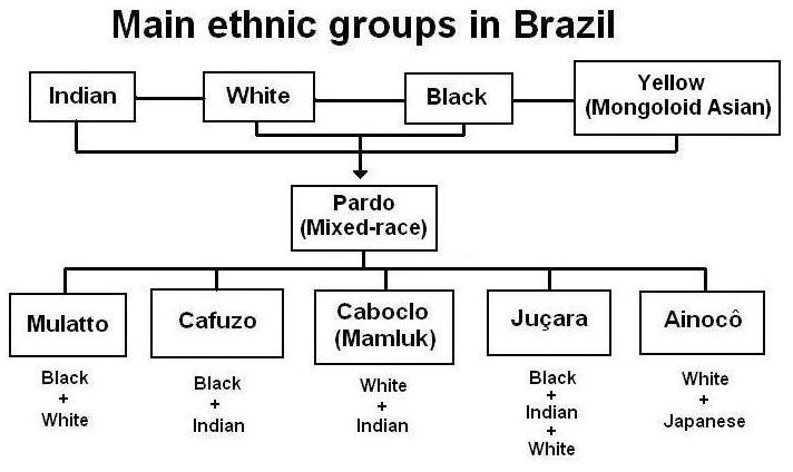 Main ethnic groups in Brazil. Information taken from the following books: *Coelho, Marcos Amorim. Geografia do Brasil. 4. Ed. São Paulo: Moderna, 1996.*Adas, Melhem. Panorama geográfico do Brasil. 1. Ed. São Paulo: Moderna, 1983.*Azevedo, Aroldo. O Brasil e suas regiões. São Paulo: Companhia Editora Nacional, 1971.